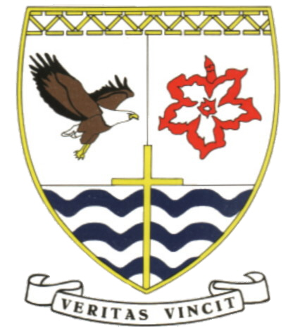 The design of the Kyle college logo. Veritas Vincit means Truth Conquers